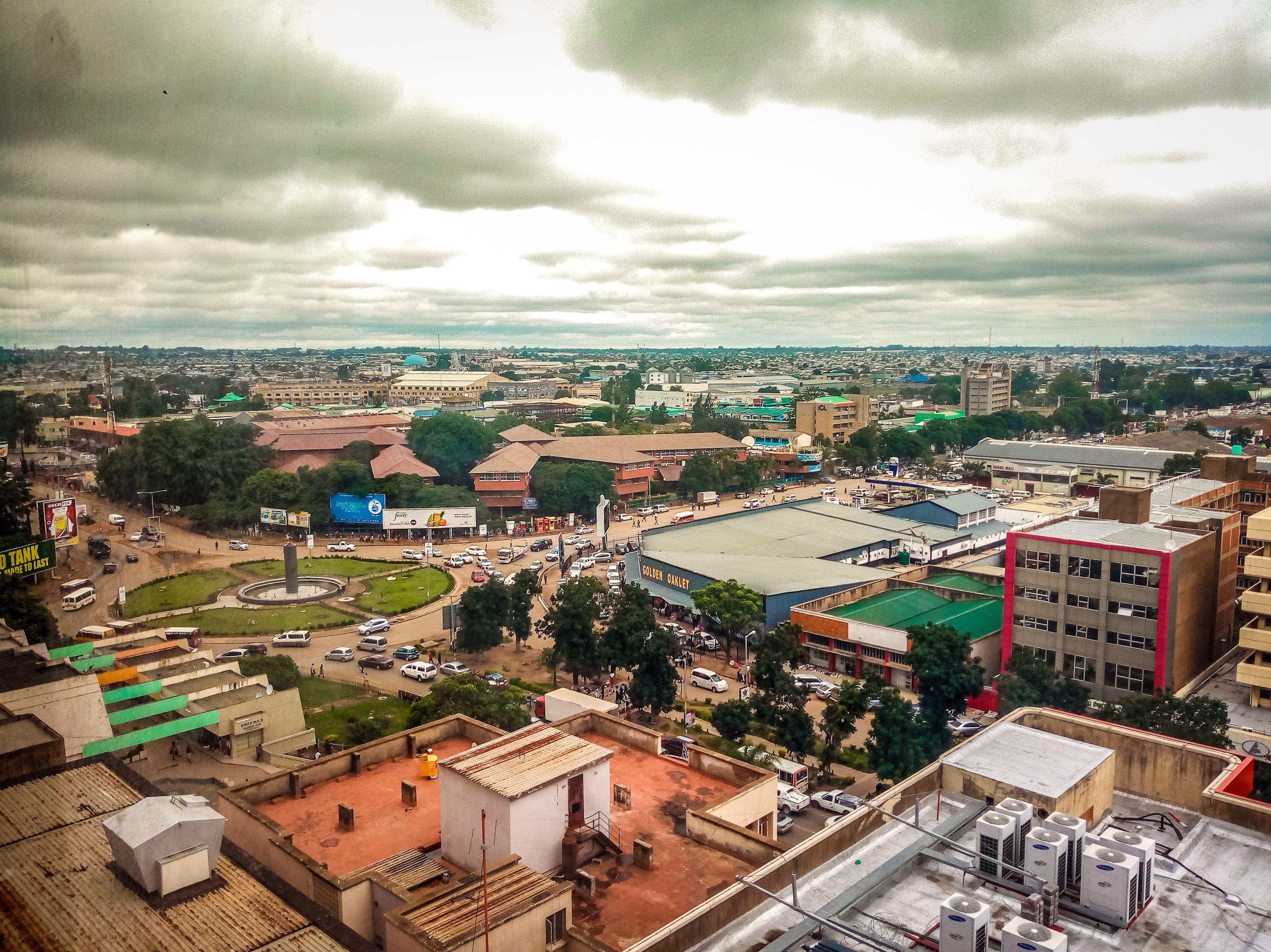 Lusaka City View of Cairo Road from Zanaco Main Branch Building This is an image with the theme "Africa on the Move or Transport" from: Zambia